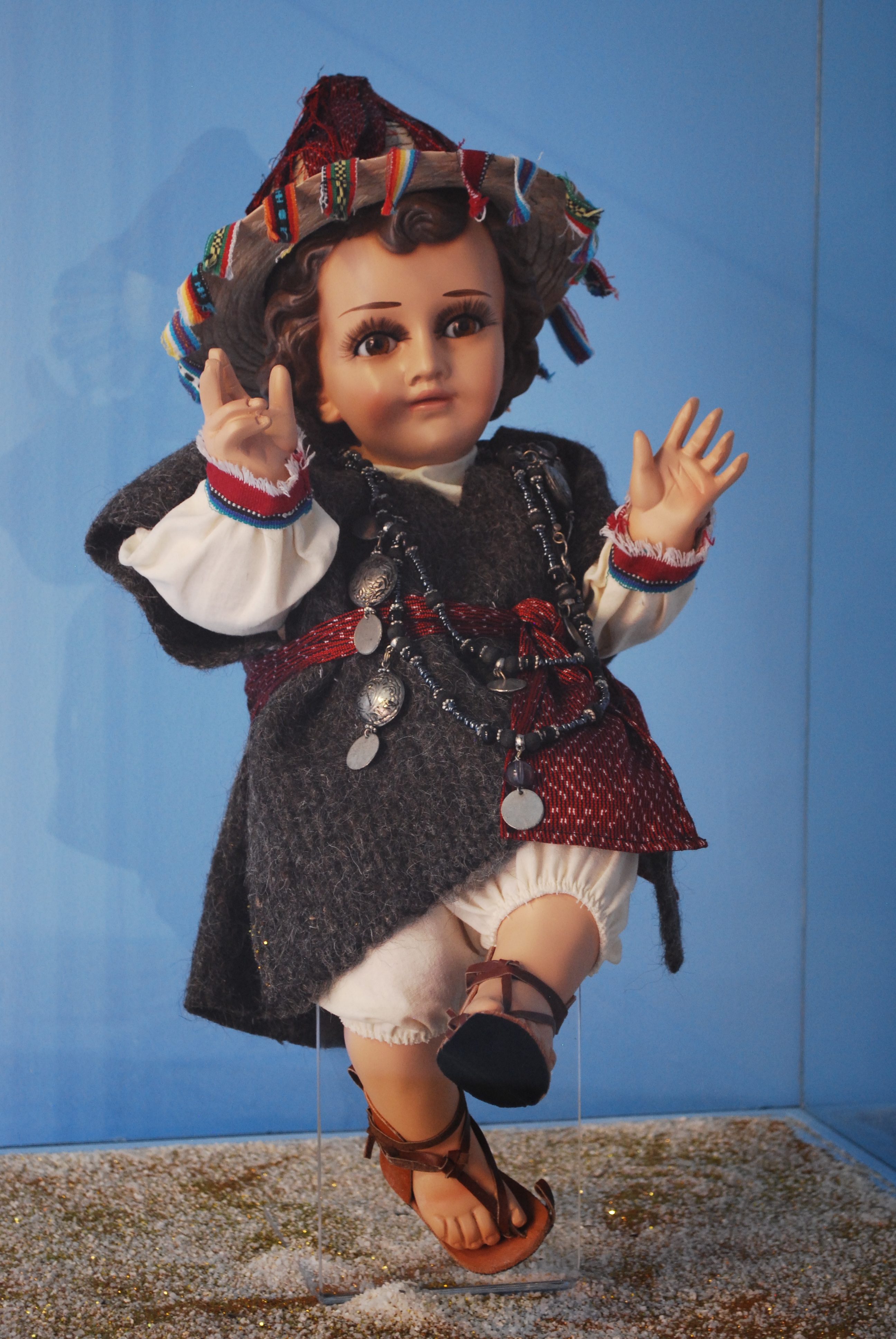 Niño Dios figure dresses as a Tzotzil person with costume by Lydia Lavín on display at the Museo Nacional de Culturas Populares in Mexico City